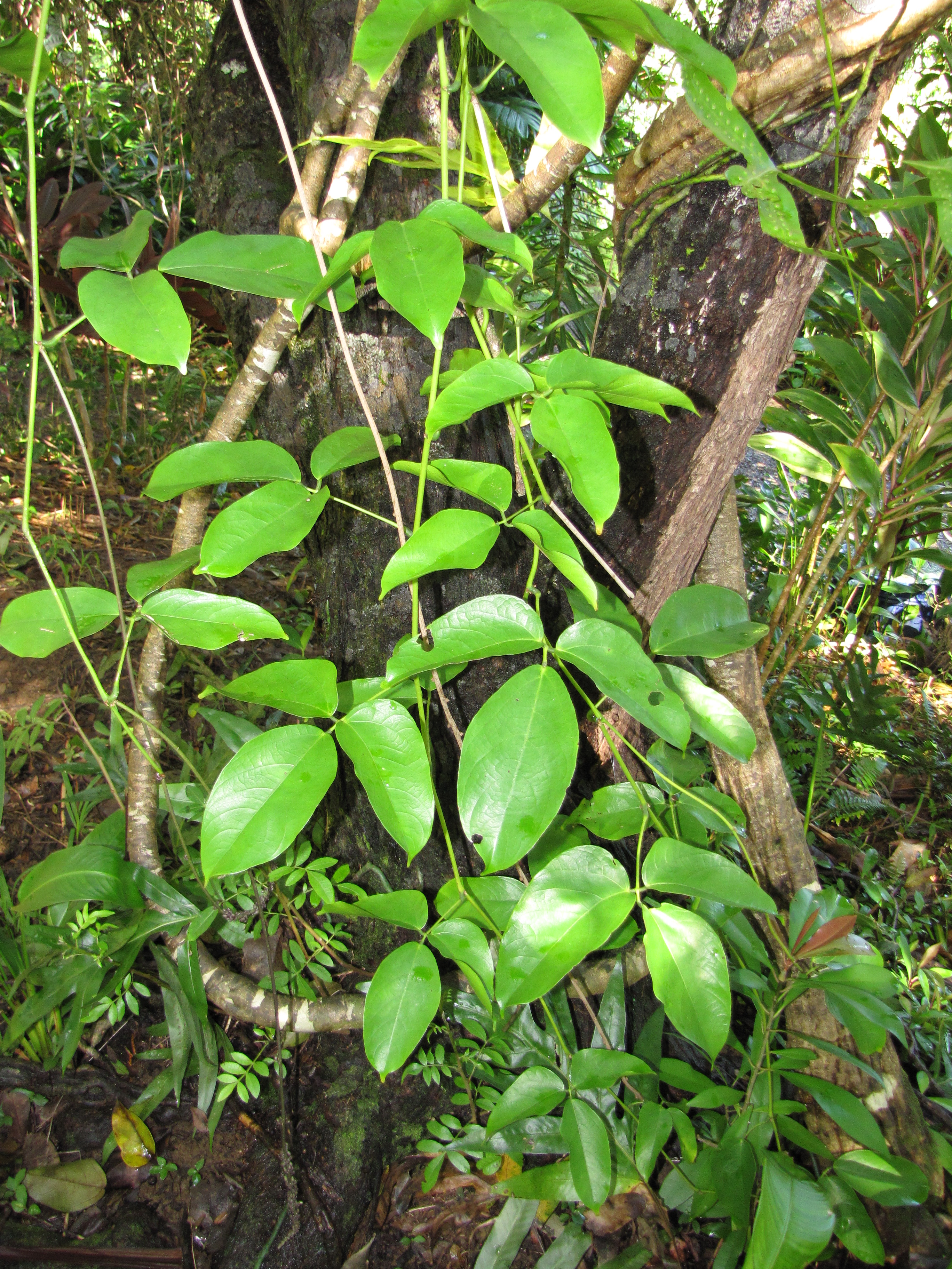 Strongylodon macrobotrys (Blue jade vine) Leaves at Garden of Eden Keanae, Maui, Hawaii. March 30, 2011 #110330-3825 Image Use Policy